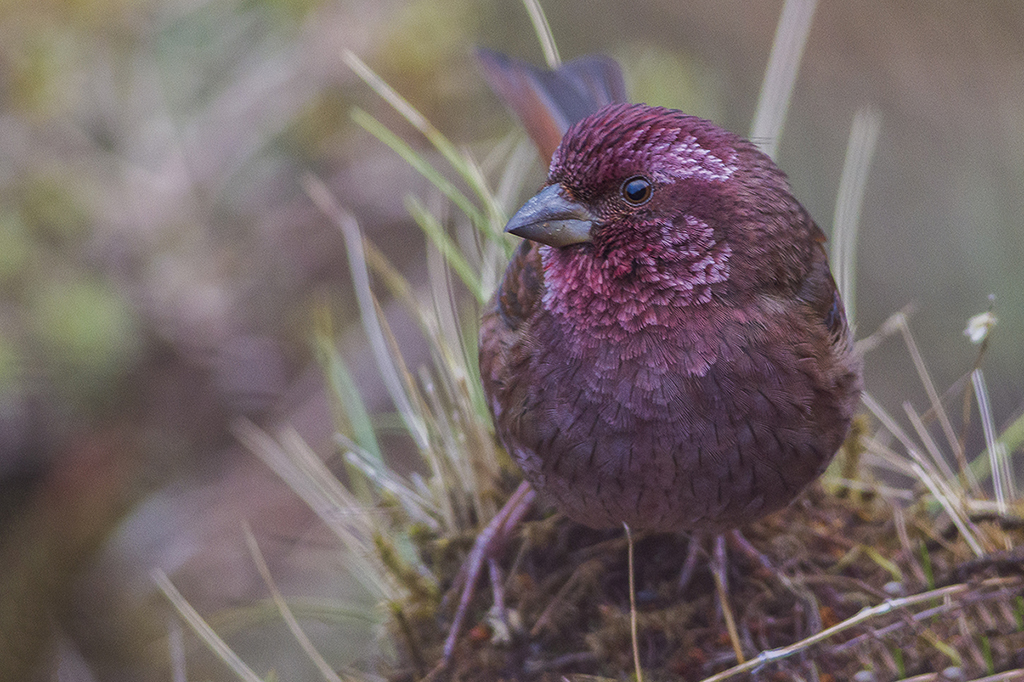 The species Dark-rumped Rosefinch has been photographed during the bird photography tour of GoingWild in East Sikkim, India in the month of May 2014.